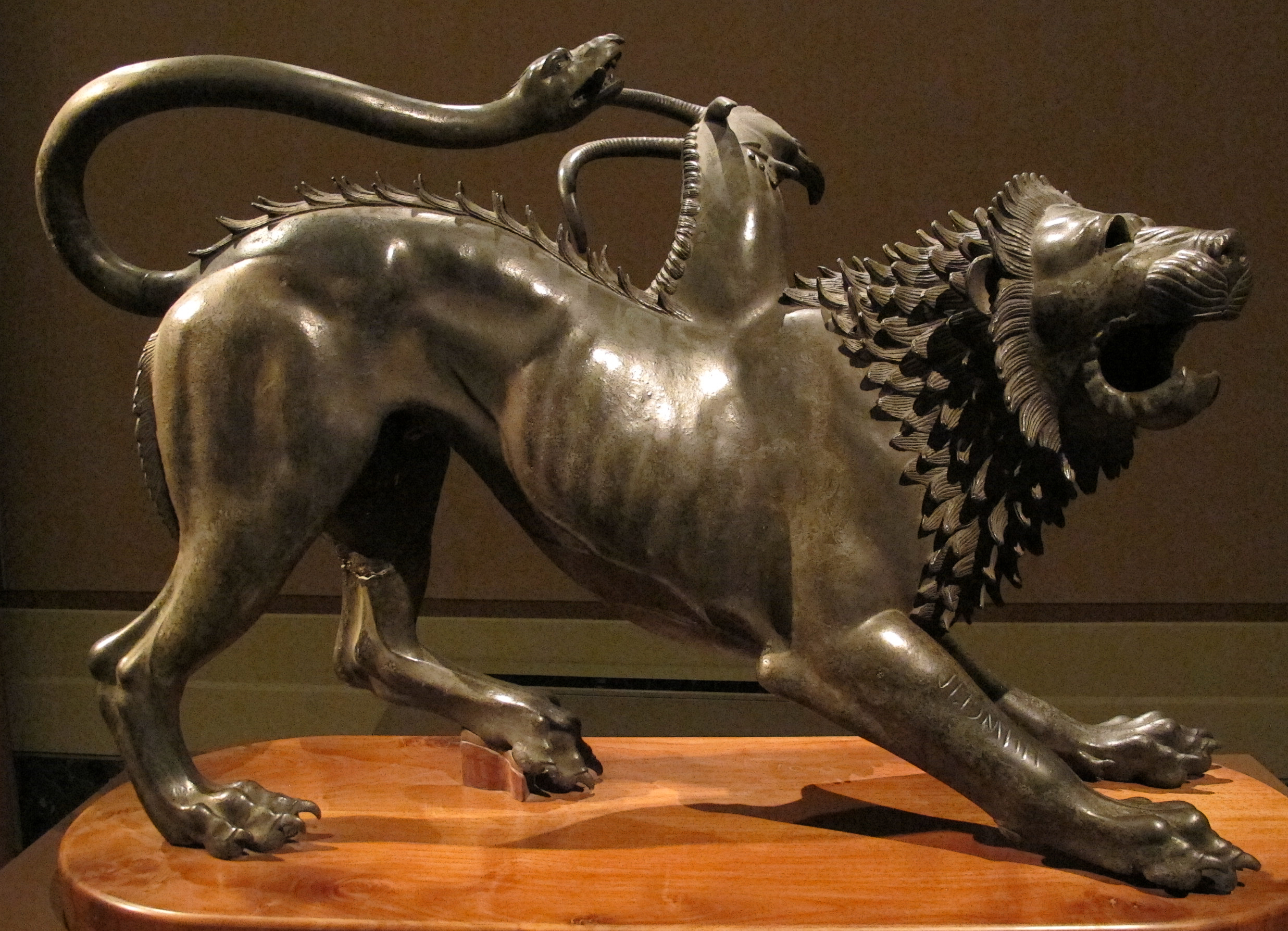 Etruscan bronze statue depicting the legendary monster. It was originally part of a group with Bellerophon and Pegasus. On the right leg is engraved the dedicatory inscription to Tinia.